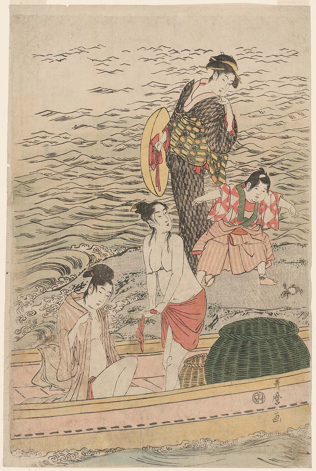 Abalone Divers - left sheet of a triptych of ukiyo-e prints